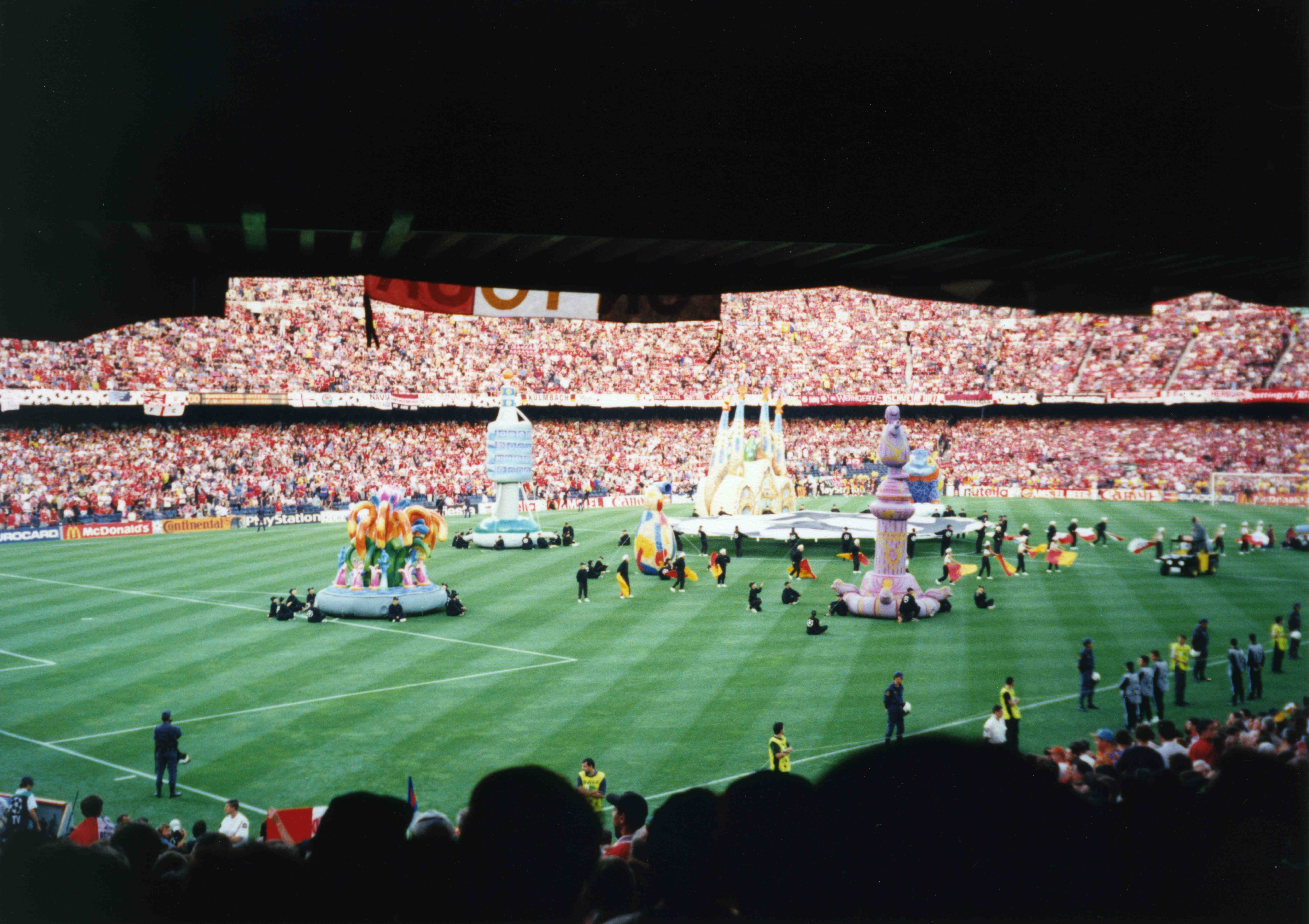 The opening ceremony for the 1999 UEFA Champions League Final at the Camp Nou, Barcelona, on 26 May 1999, featuring inflatable versions of recognisable Barcelona landmarks